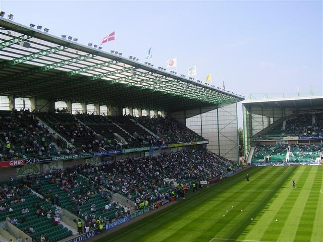 View of west stand at Easter Road